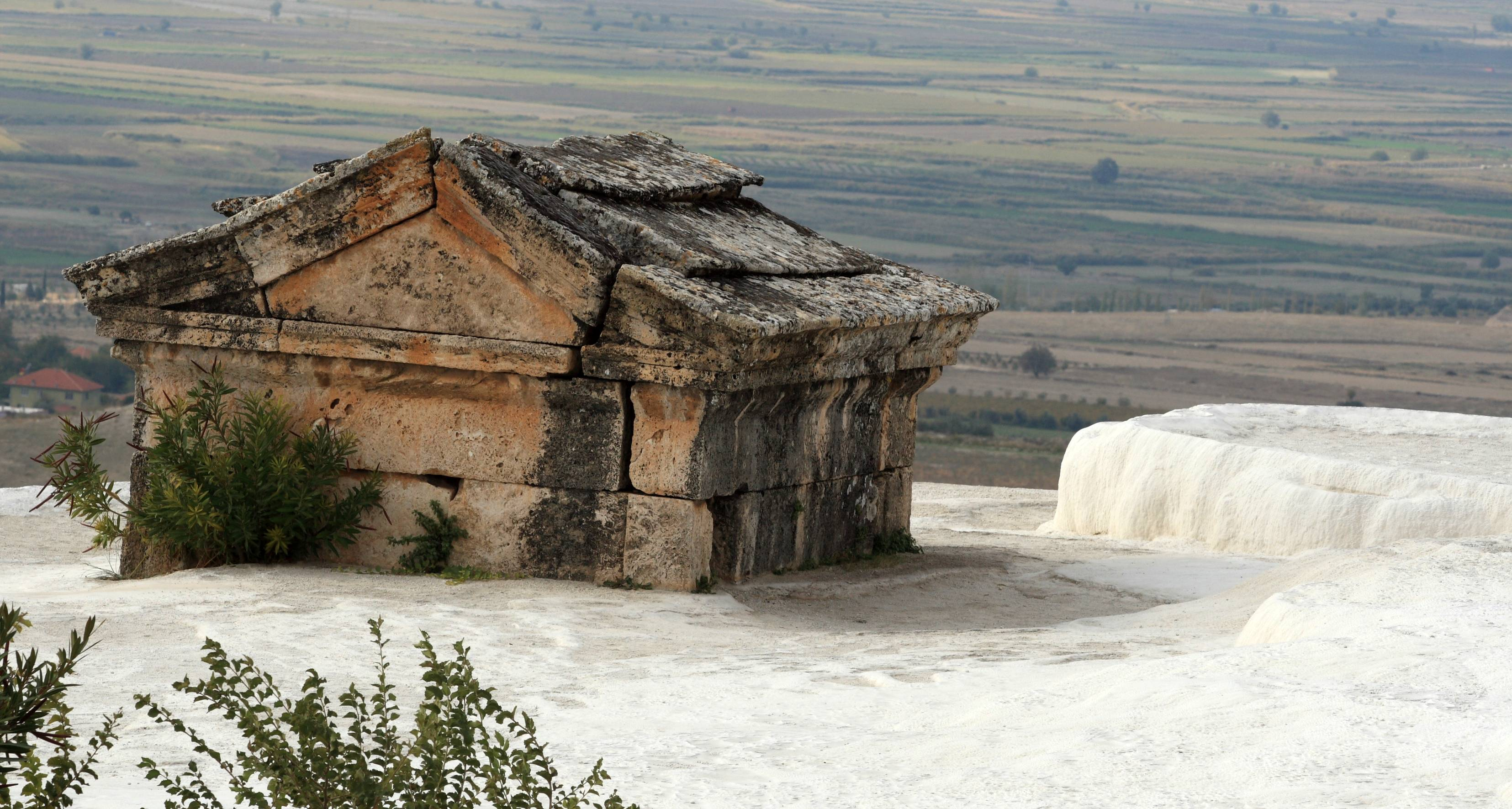 Tomb submerged in a travertine pool in Hierapolis.